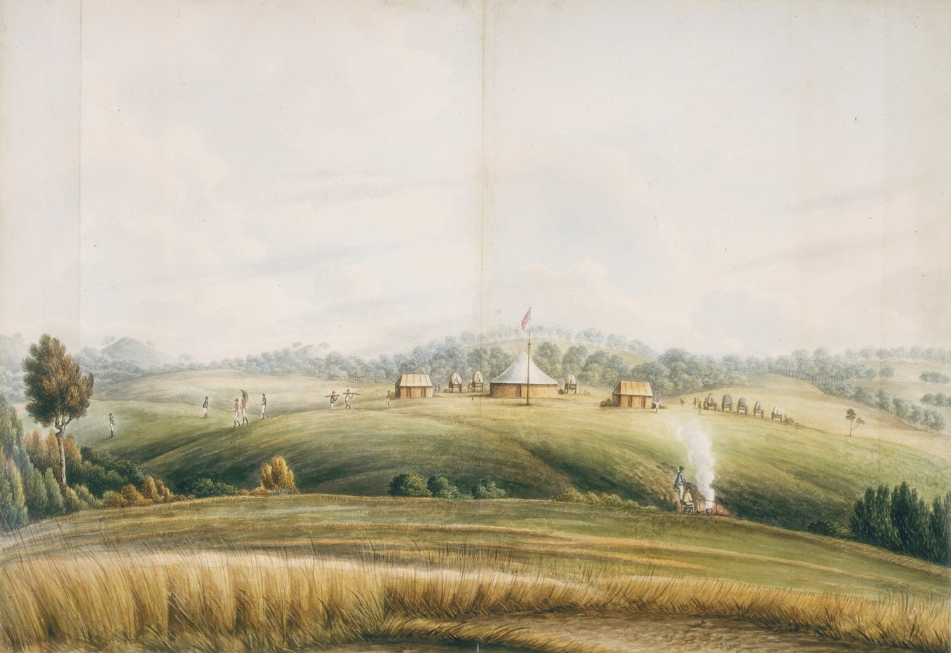 The Plains, Bathurst, watercolour drawing, 46.2 x 66.4 cm